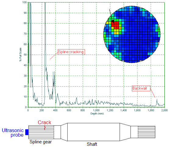 Swing shaft with spline cracking found using ultrasound NDE.